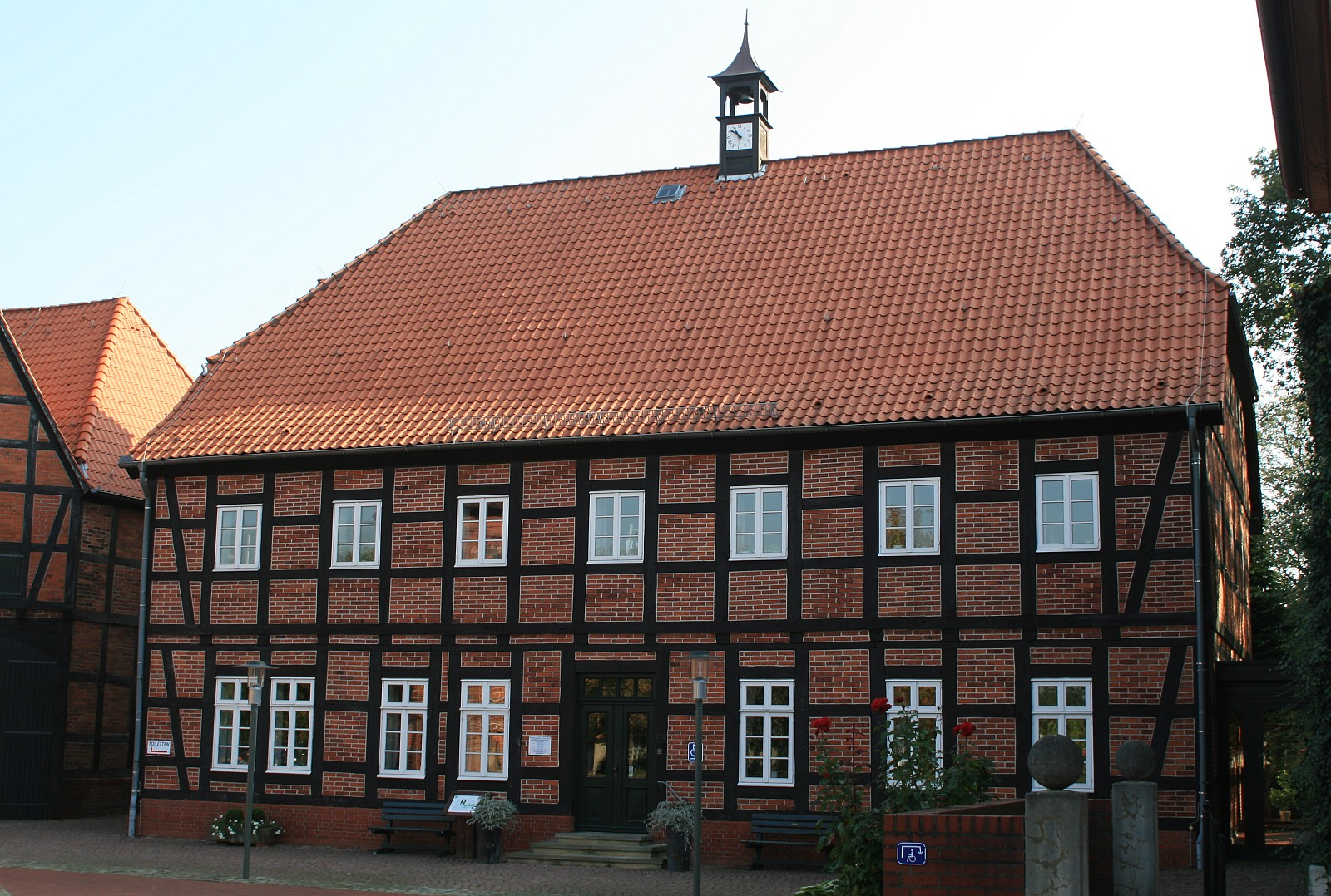 Packhaus in Thedinghausen, Germany